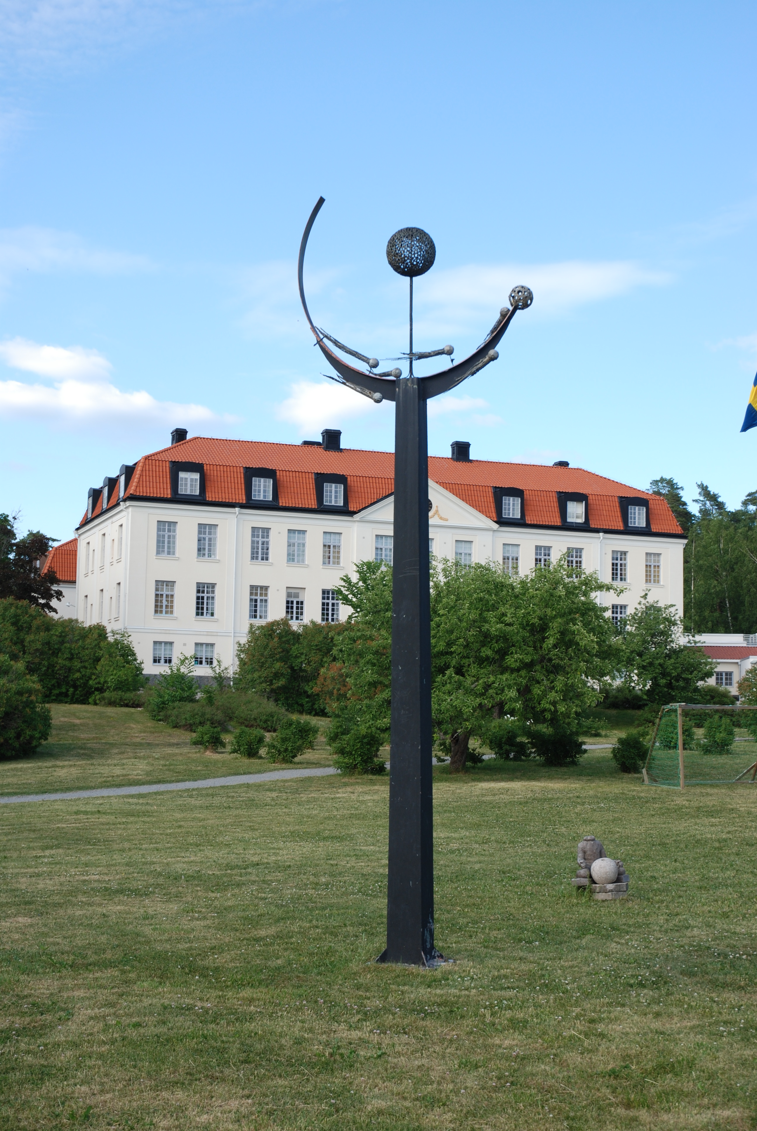 Sculpture by artist Erik Ståhl in front of Margaretha School, Knivsta, Sweden.